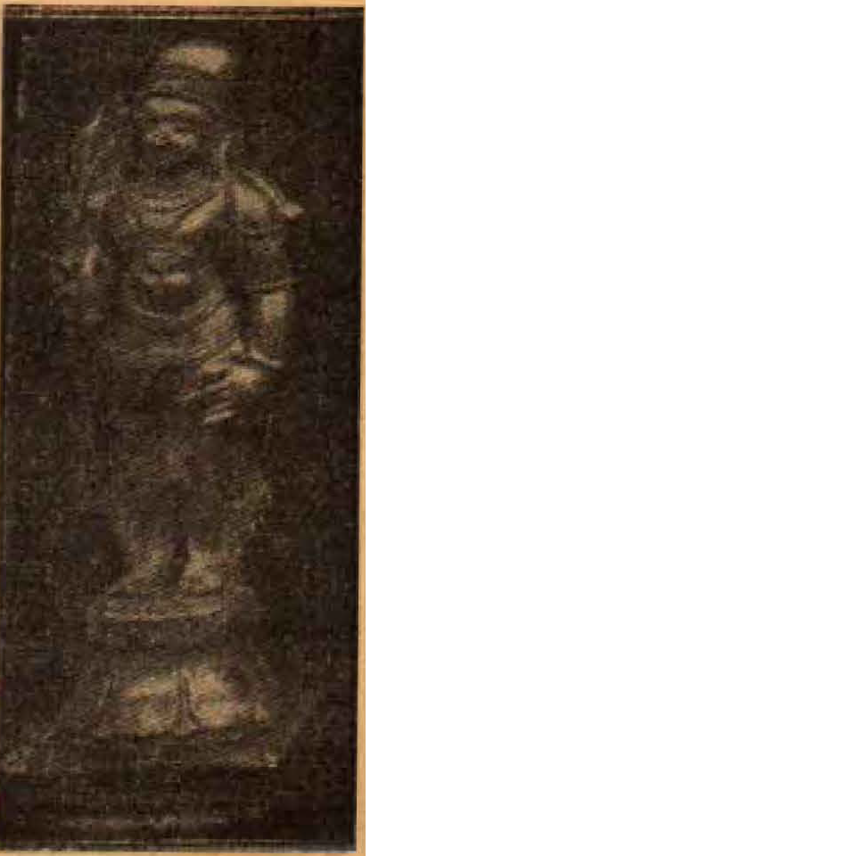 అరివాళు